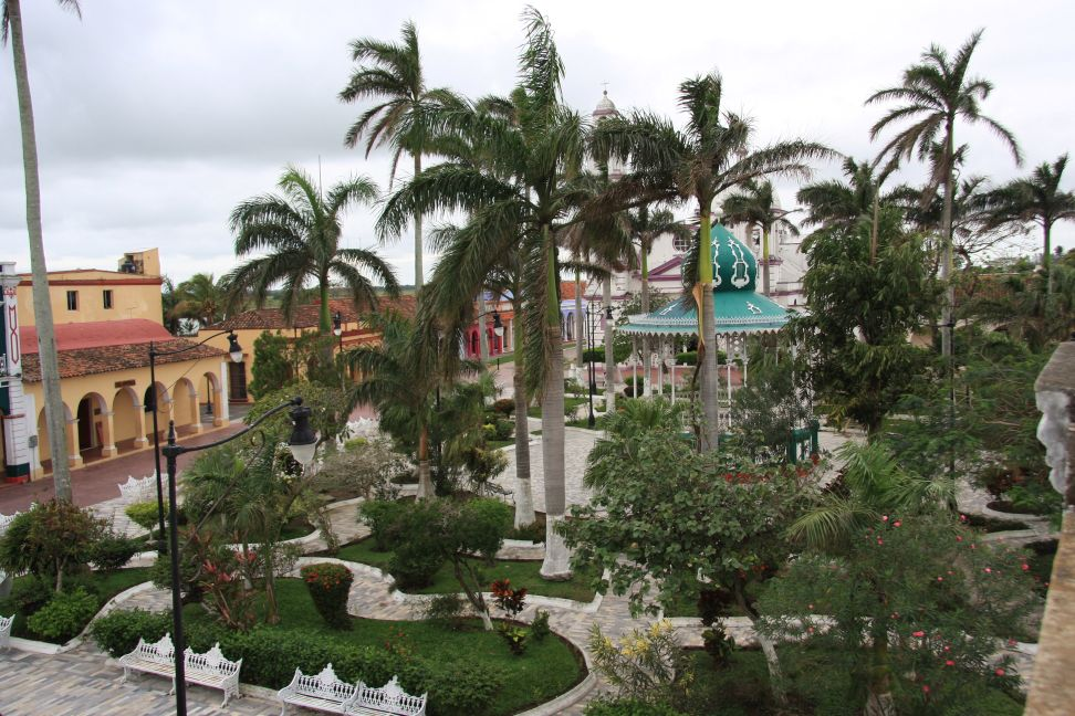 Tlacotalpan - main square (zocalo)